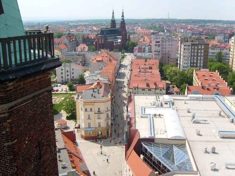 View of the old town of Legnica, built in the years of 60's, with communistic architecture, after being destroyed by the Soviet Army in May 1945/ dodano przez Monteclarus i Cargool